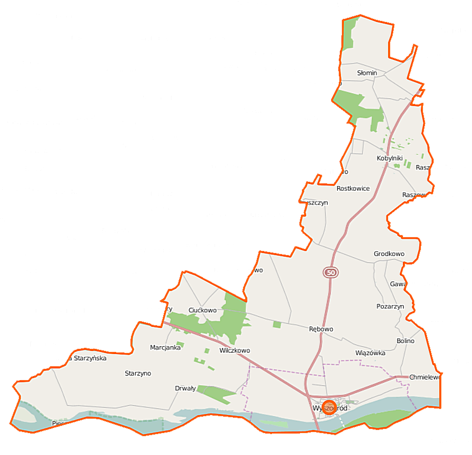 Map of Gmina Wyszogród, Poland This map of Wyszogród (gmina) was created from OpenStreetMap project data, collected by the community. This map may be incomplete, and may contain errors. Don't rely solely on it for navigation. Border coordinates52.521220.0150←↕→20.267052.3730